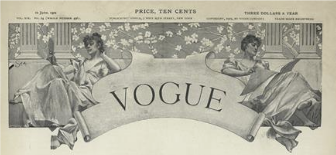 Header for Vogue Magazine from 1892 to 1906 (Taken from 1902 issue)